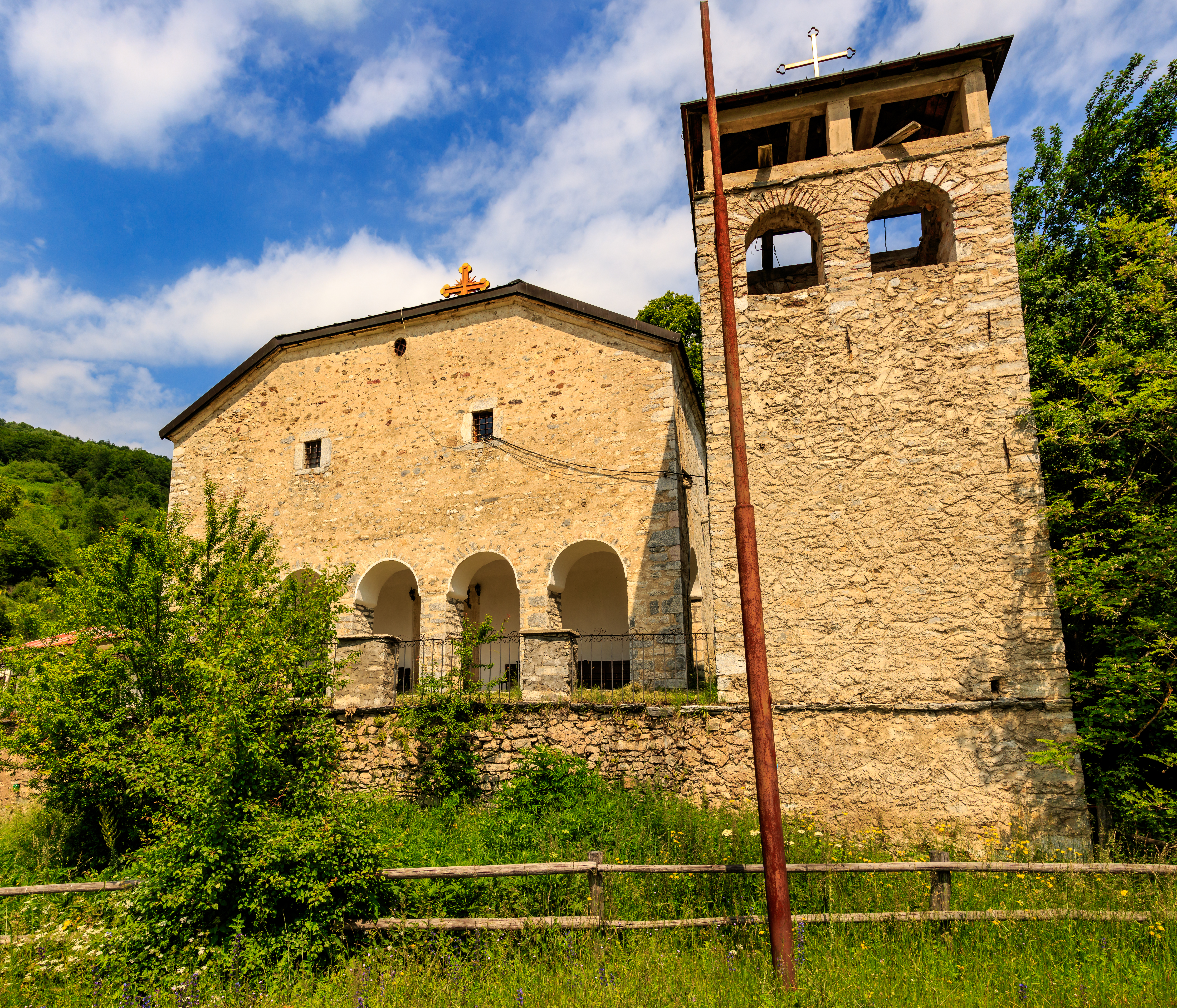 View of the Dormition of the Theotokos Church in the village Leunovo